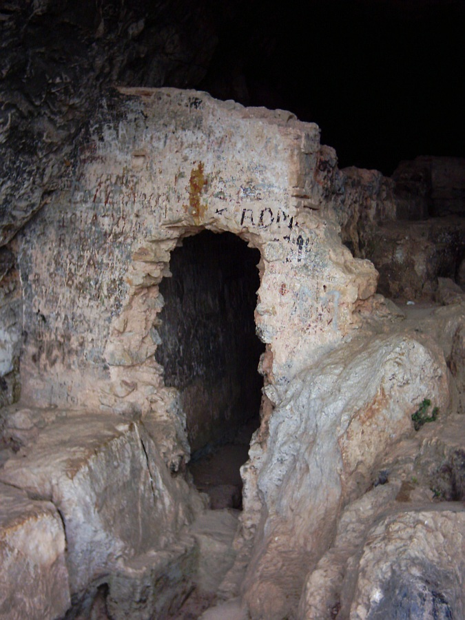 Walls at the entrance of the cave "Cova de l'Aigua" at the Montgó Natural Parc (Denia, Province of Alicante, Spain)